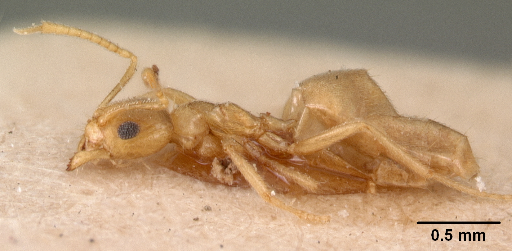 Profile view of ant Tapinolepis tumidula specimen casent0102094.